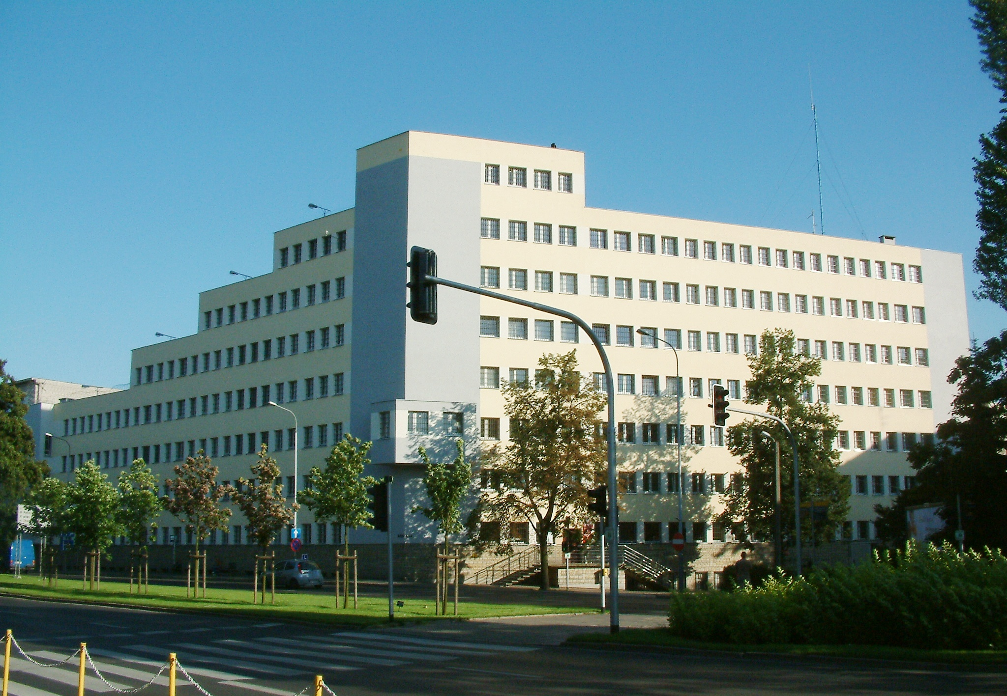 Custodial remand in Poznań